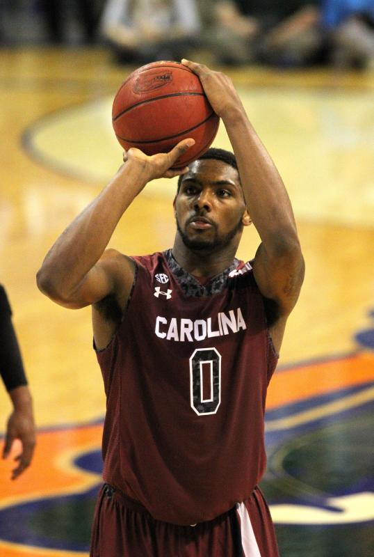 Sindarius Thornwell made Free Throw